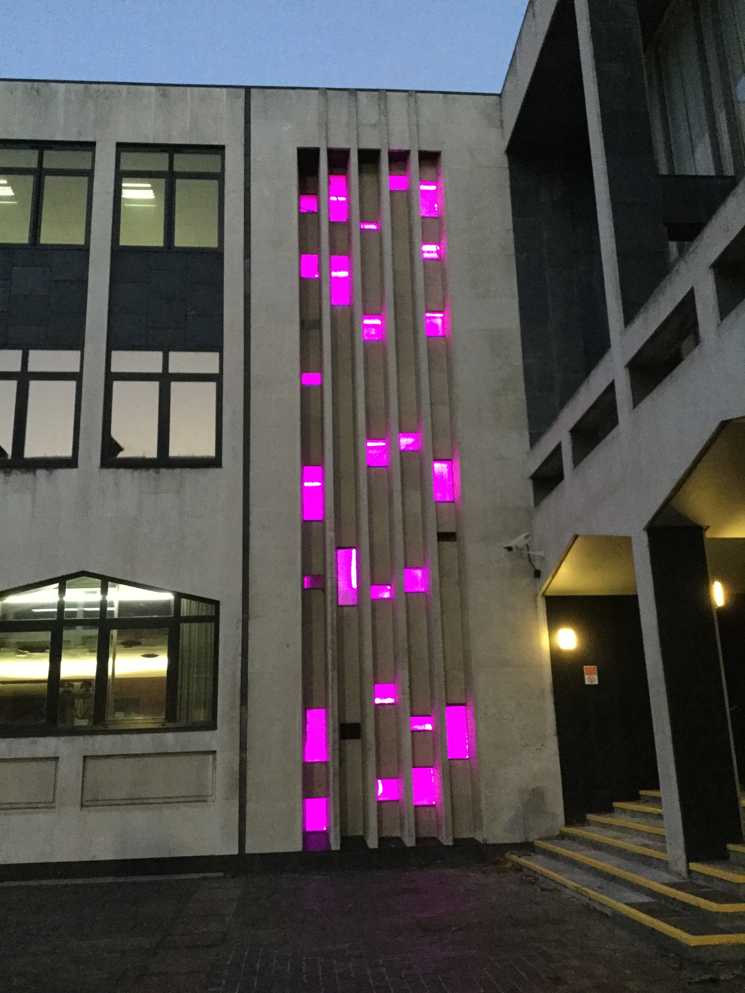 World Prematurity Day - Civic Centre staircase goes purple!